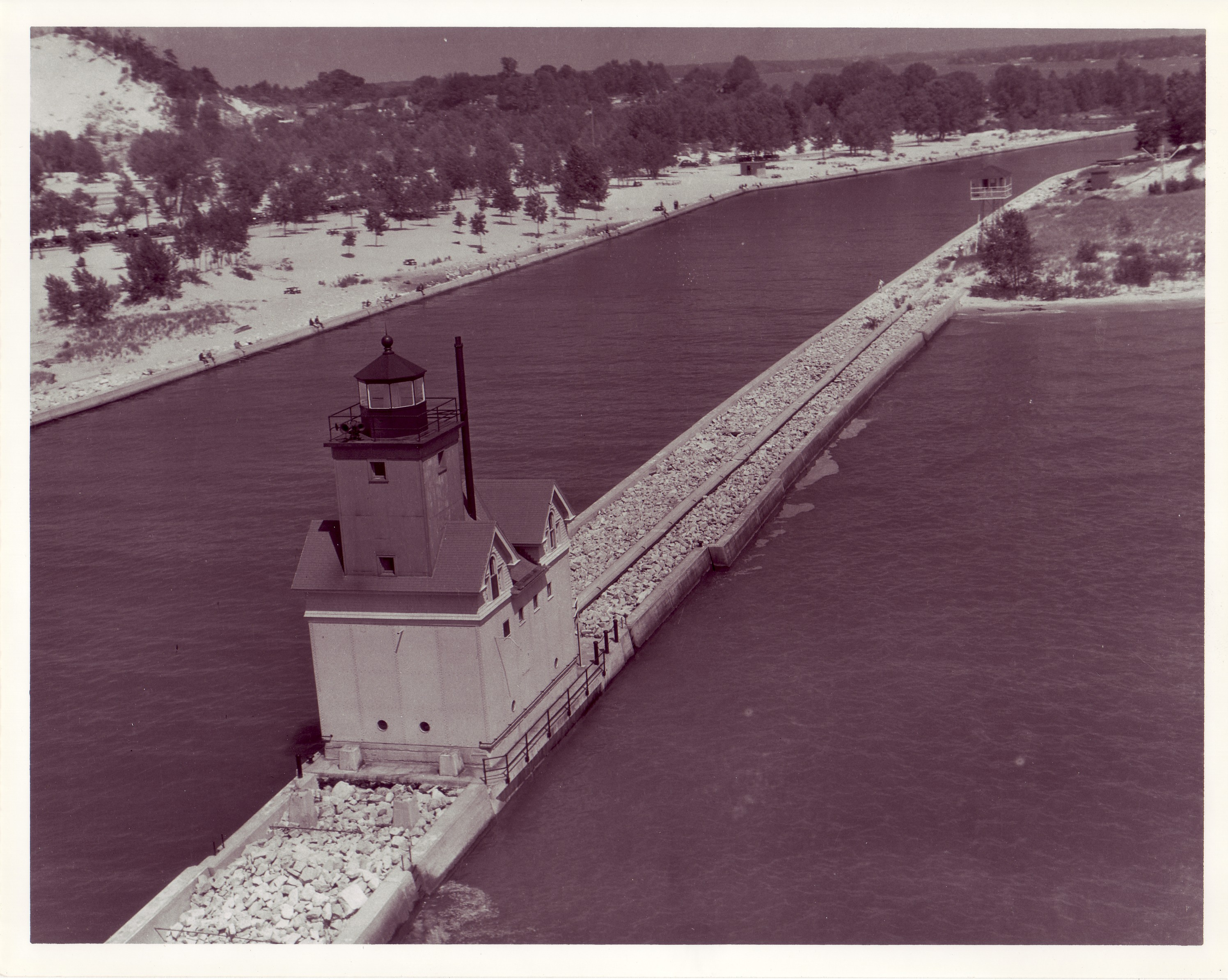 U.S. Coast Guard Archive Photo of Holland Harbor Pierhead Light:(300 dpi); Original caption: "Light #1538"; Photo No. 537; photographer unknown.